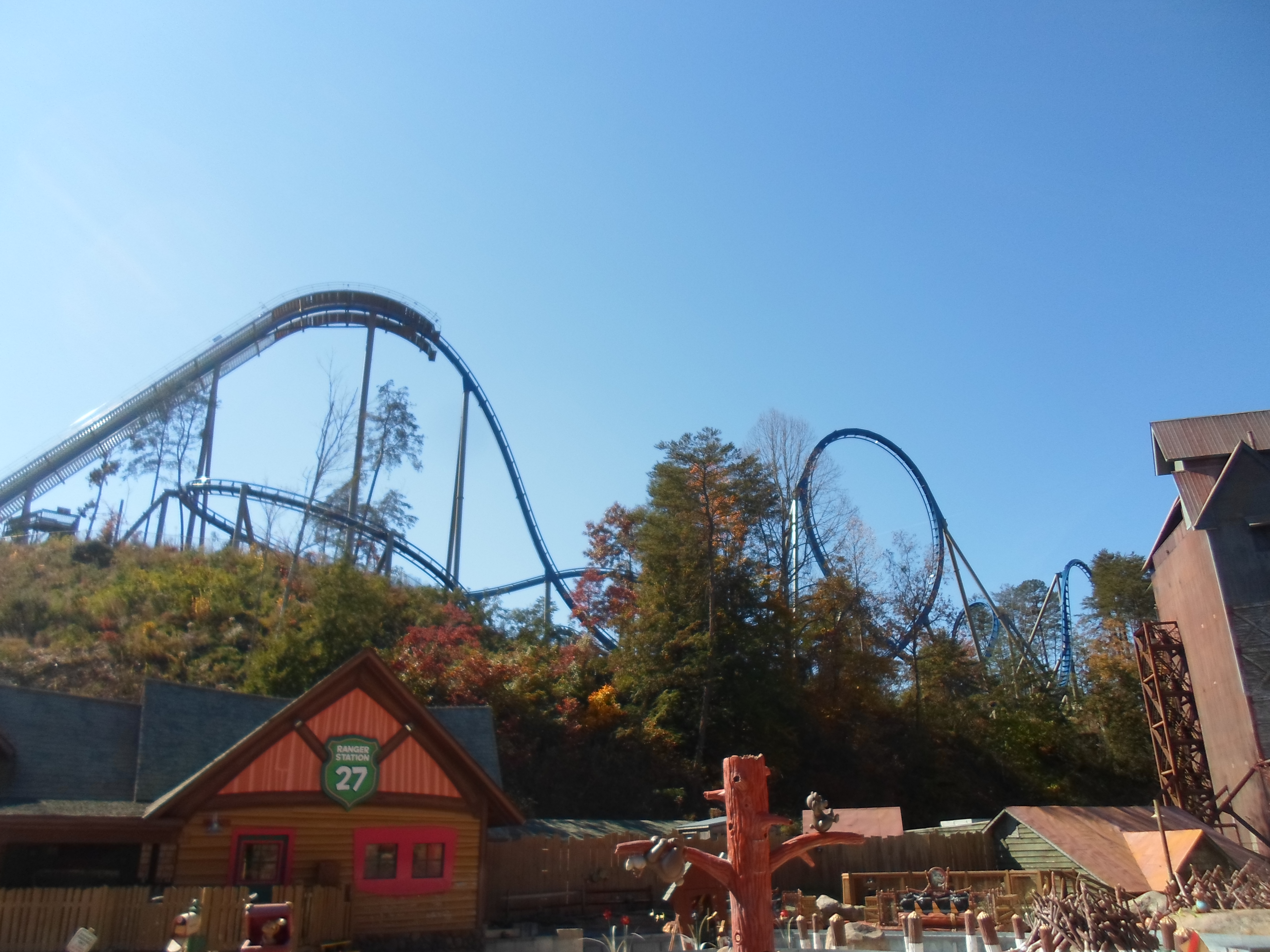 This is photo showing a part of the Wild Eagle roller coaster in Dollywood.